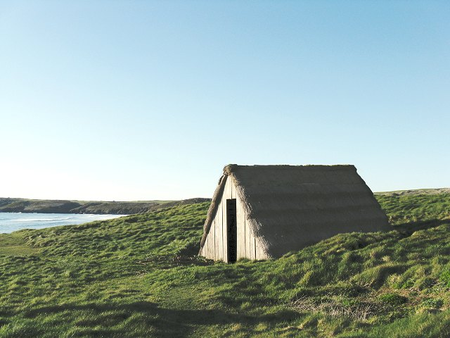 Seaweed-drying hut at Freshwater West Only one of these rudimentary huts has been preserved. Seaweed was laid out inside to dry. It was then sold to make laver bread.